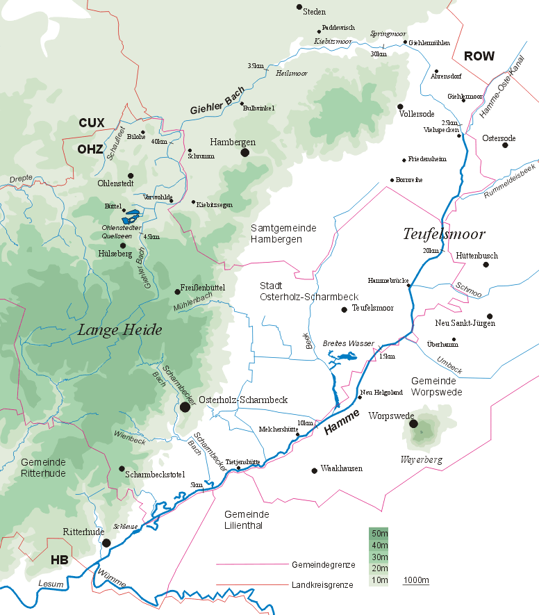 Course of the River Hamme and relief map of the southern Wesermünde Geest in the "Lange Heide" region with sources of the streams. Course of the Giehler Bach to the Teufelsmoor and tributaries of the Hamme, Lower Saxony, Germany.